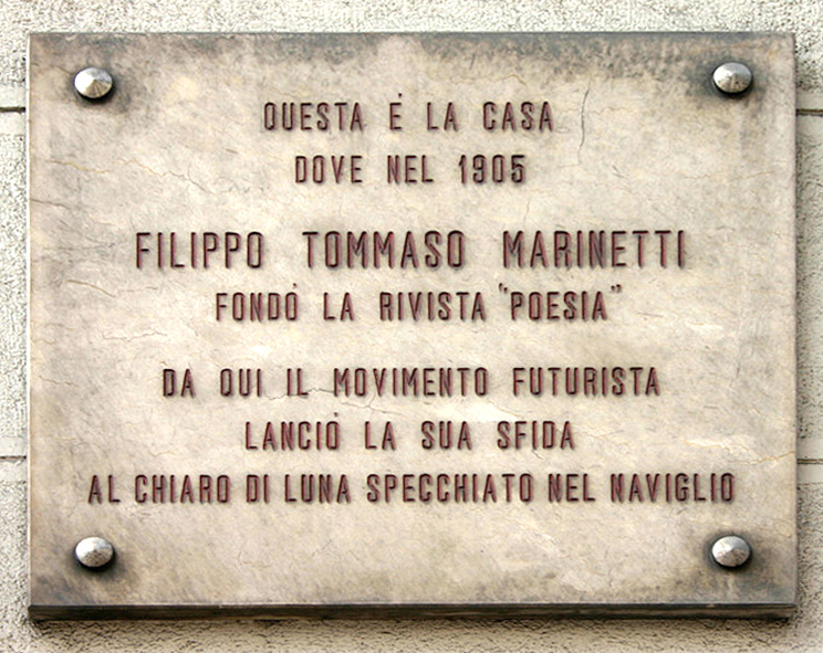 Plaque on Marinetti's house in Milan.